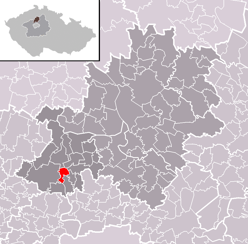 Location of Chvatěruby municipality within Mělník District and administrative area of Kralupy nad Vltavou as a Municipality with Extended Competence.